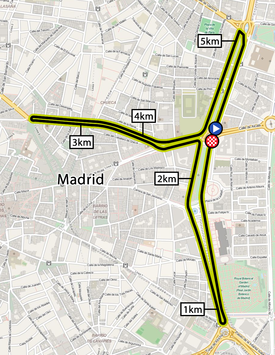 The route of the 2015 La Madrid Challenge by La Vuelta. This map may be incomplete, and may contain errors. Don't rely solely on it for navigation.